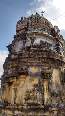 Nalurmayanampalasavanesvara temple நாலூர்மயானம் பலாசவநாதர்கோயில்